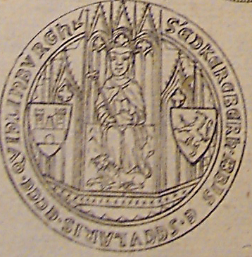 Seal of the 23rd abbess of Quedlinburg, Irmgart, 1379-1405